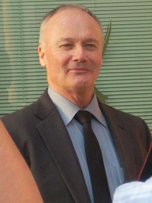 Creed Bratton - Inside "The Office" at the Academy of Television Arts & Sciences, North Hollywood, California.